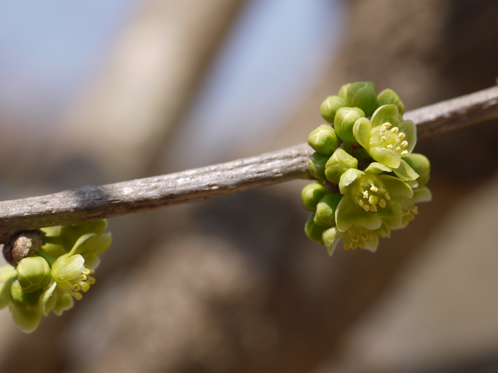 Flacourtiaceae (coffee plum family) » Casearia tomentosa ¿ kay-SIR-ee-uh ? -- named for Johannes Casearius, minister of the Dutch East India Co. ee-LIP-tih-kuh -- elliptical, about twice as long as wide commonly known as: downy-leaved false kamela, toothed-leaf chilla • Gujarati: મુંઝાડ munjhaad, મુંજાળ munjaal • Hindi: छिल्ला chilla • Konkani: bhedsi • Marathi: मोदगी modgi • Nepalese: सानो बेथे sano bethe • Sanskrit: chilhaka • Tamil: கடிச்சை katiccai • Telugu: చిలుకదుదుడి chilaka-dududi Native to: India, Nepal, Pakistan, Sri Lanka References: Flowers of India • Floristic Survey of Institute of Science • eFlora • NPGS / GRIN